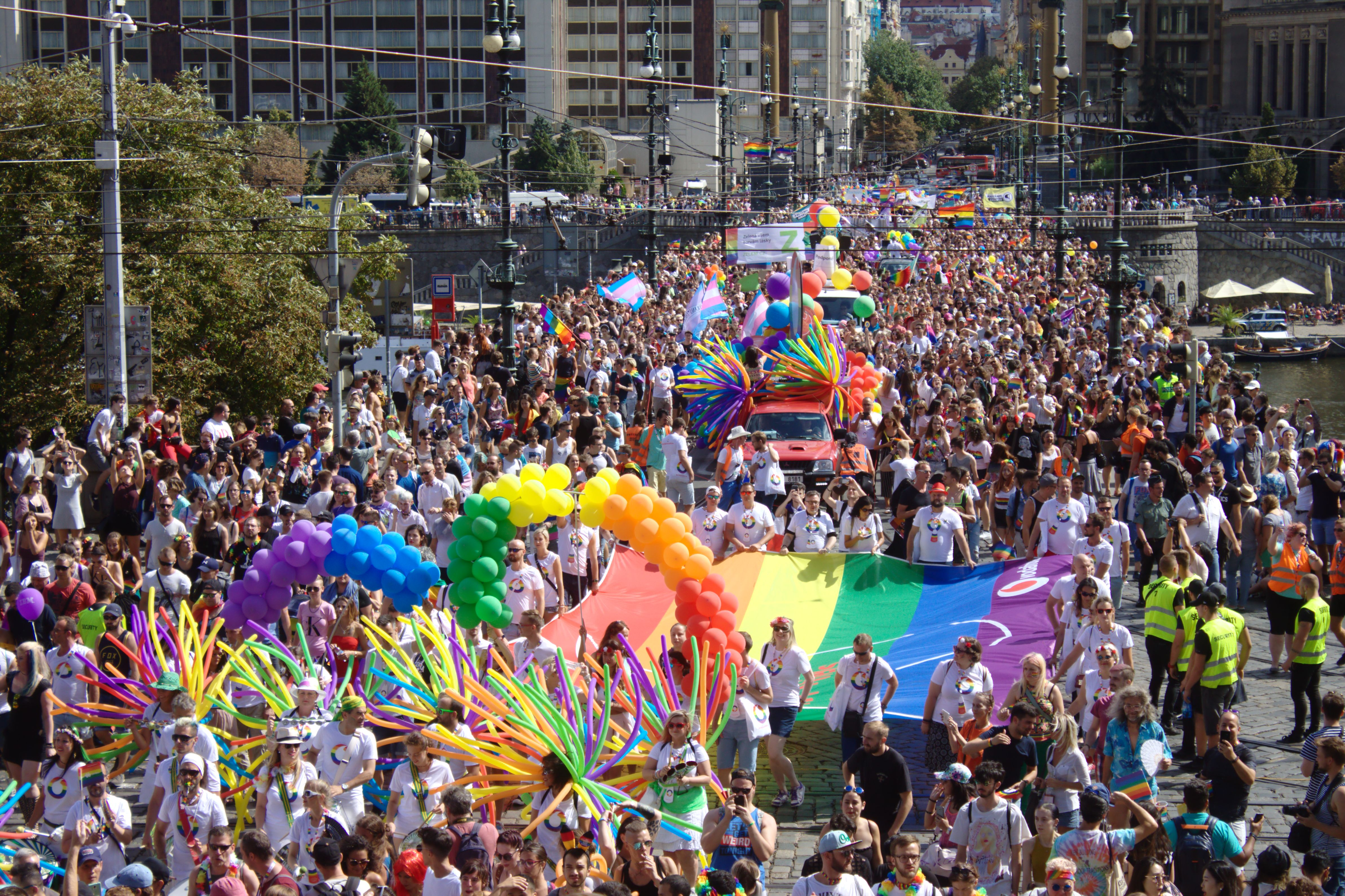 Prague Pride march in August 2018, at Čechův most Bridge, Prague, CZ Personality rights warningAlthough this work is freely licensed or in the public domain, the person(s) shown may have rights that legally restrict certain re-uses unless those depicted consent to such uses. In these cases, a model release or other evidence of consent could protect you from infringement claims.